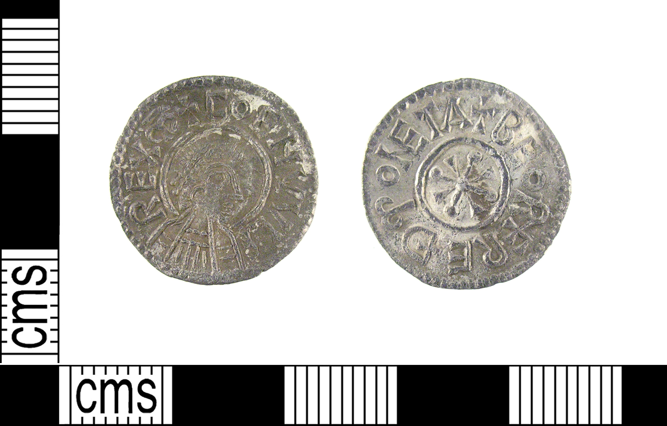 An Early Medieval silver penny of Coenwulf of Mercia (796-821); Cross-and-wedges phase (805-10). moneyer: Beornferth; mint: Canterbury; Naismith C23 / North 344. The obverse has the same die as Naismith C23a and C23b; the reverse die is previously unrecorded. Dimensions: diameter: 18.73mm; weight: 1.30g.